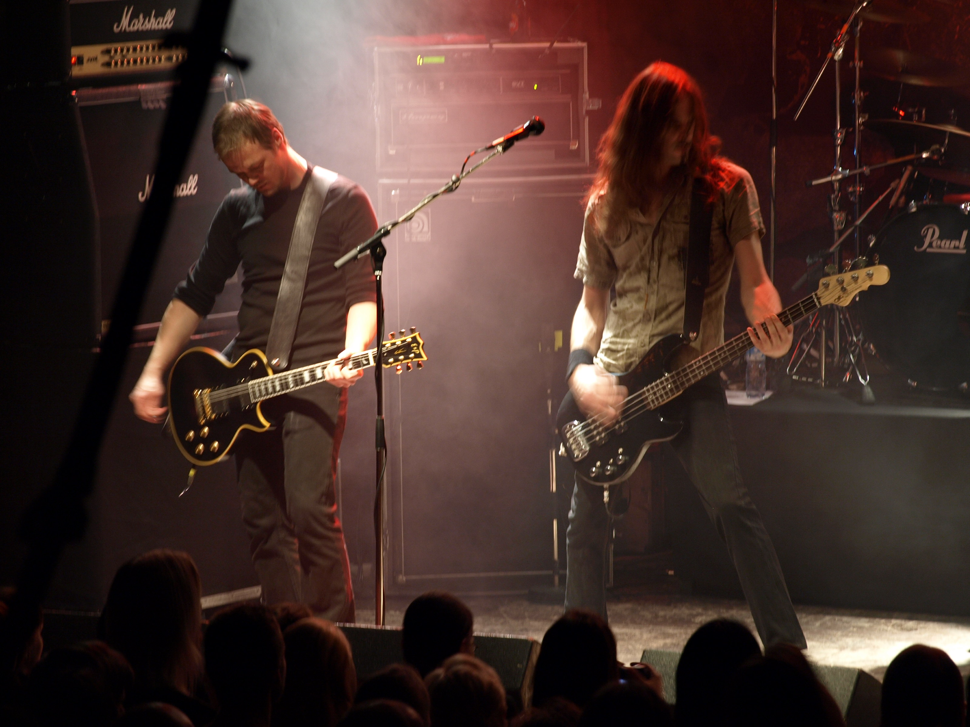 Finnish metal band Amorphis